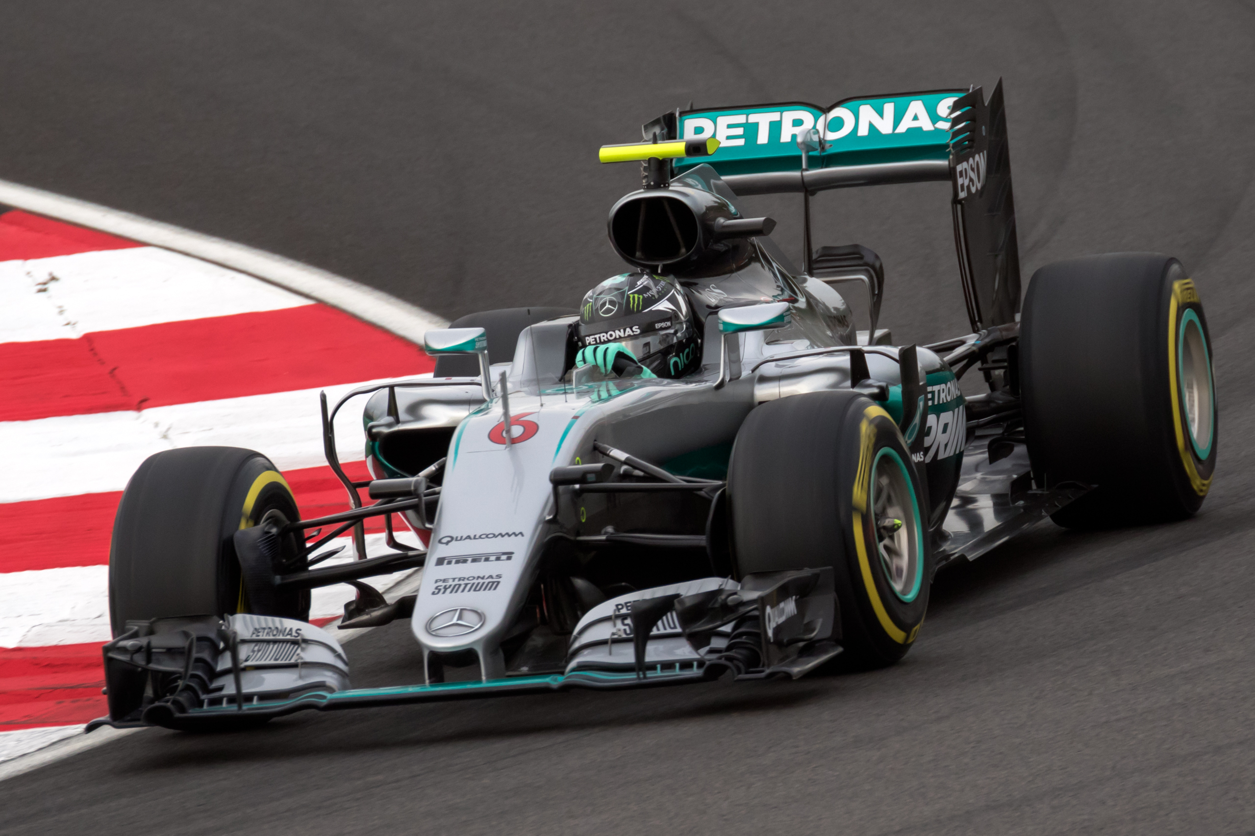 Formula One 2016 Rd.16 Malaysian GP: Nico Rosberg (Mercedes)